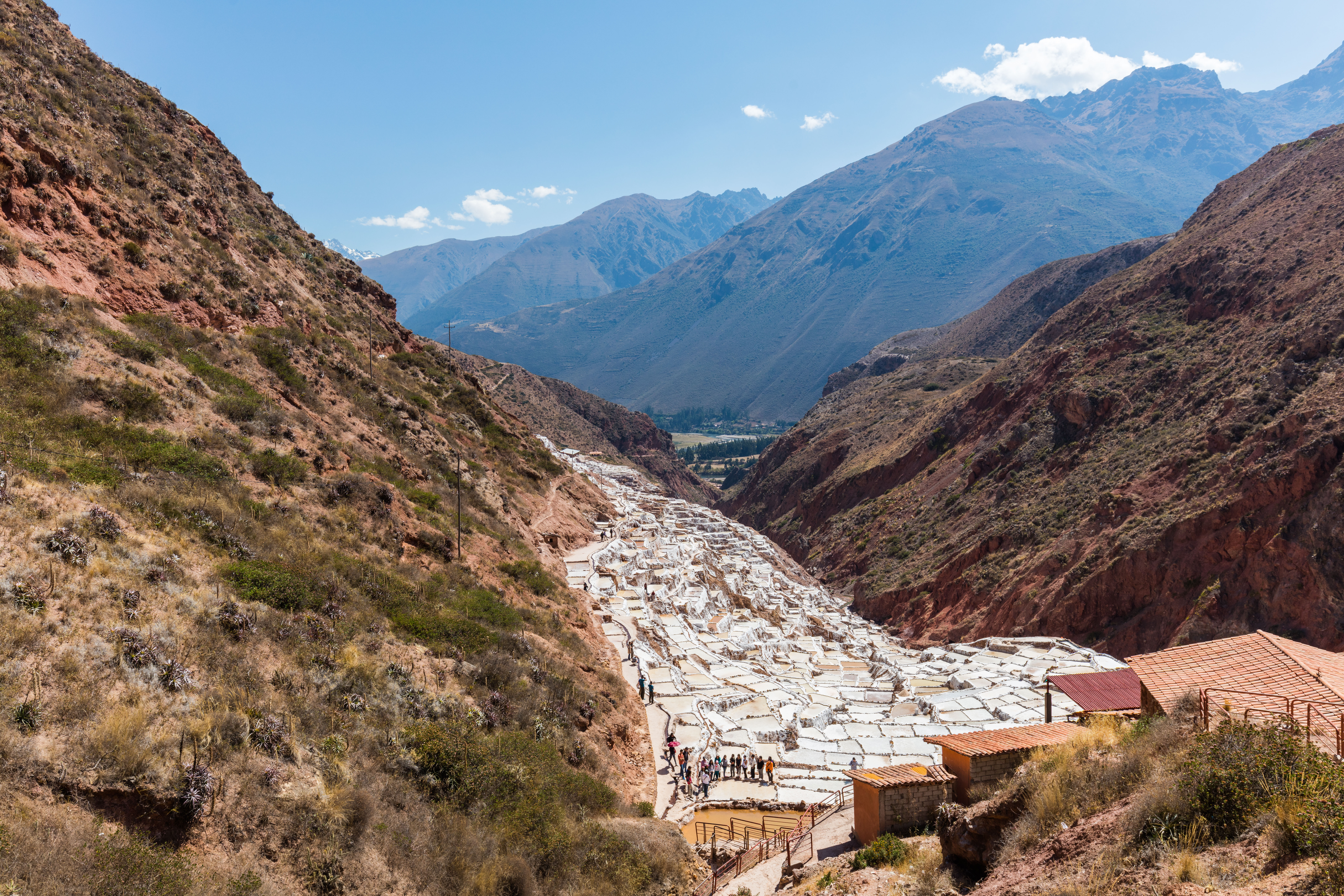 Salineras (salt evaporation ponds) in Maras, Peru